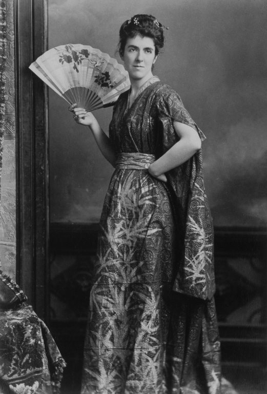 Elspeth Hudson Angus, later Meredith (1858-1936) of Montreal, taken before the Castanet Club Ball, Montreal, 1886